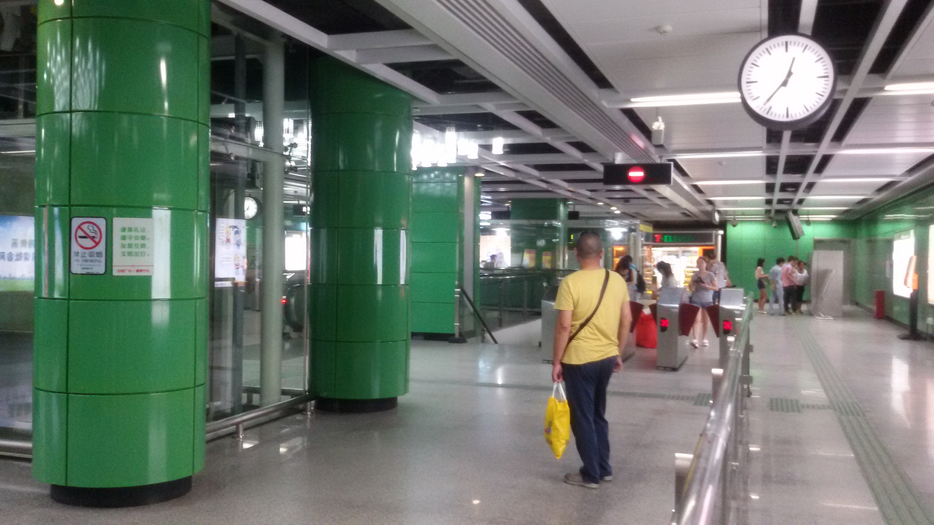 Station Concourse for Yongtai Station, Guangzhou Metro. 粵語: 廣州地鐵，永泰站嘅站廳。